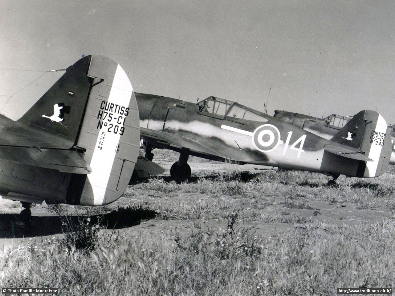 H-75 C1 de la SPA 167 alignés sur la base de Casablanca - 1941